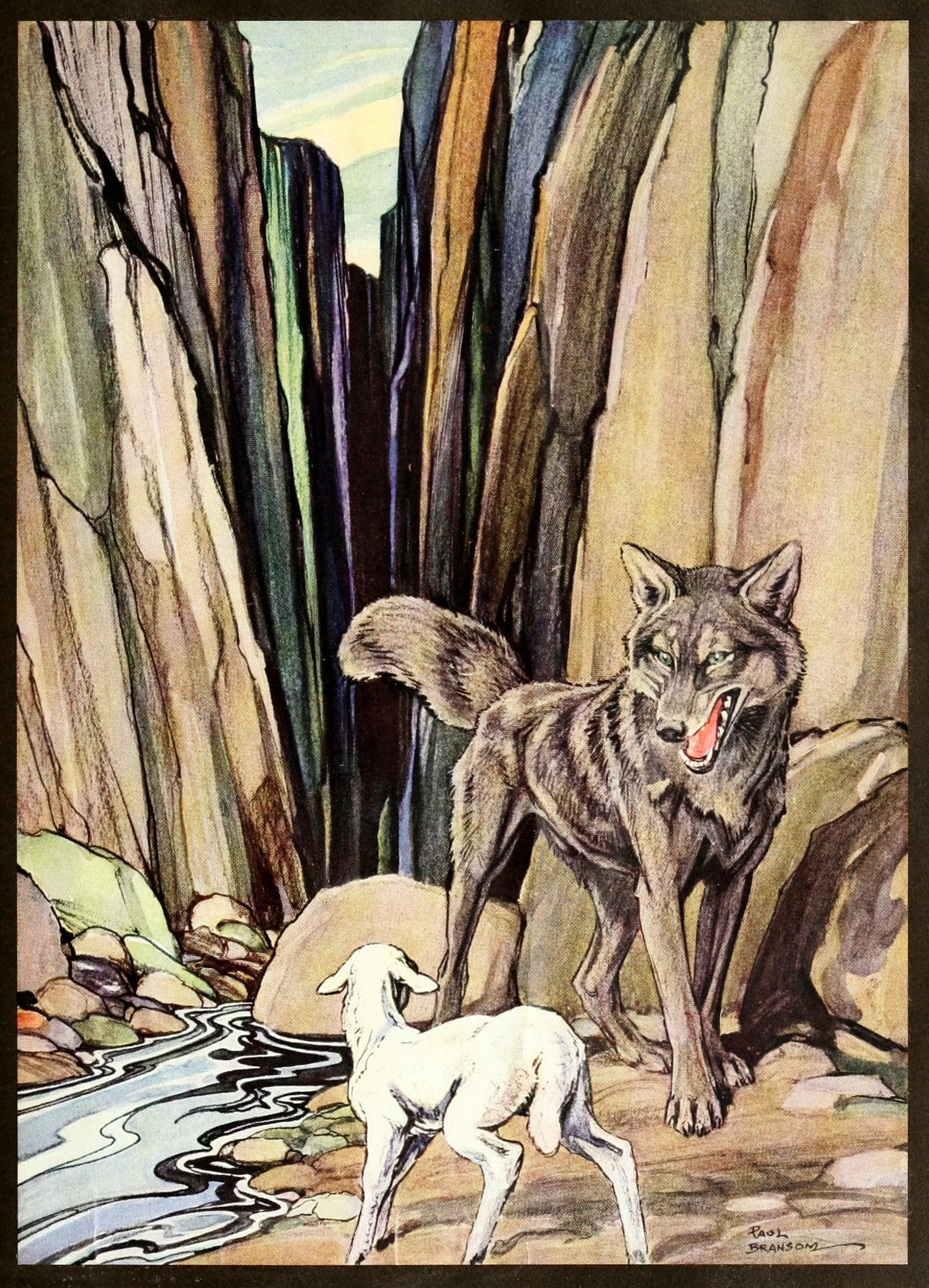 Scan of illustration in a collection of fables